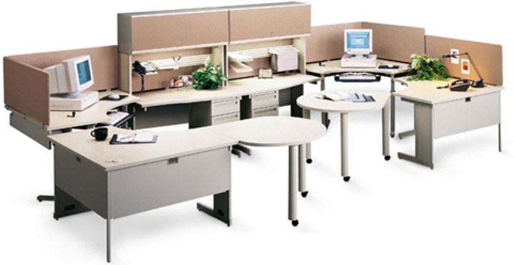 Fundamentals for the Flexible Workplace Variability. Compatibility. Value. Nowhere are these elements as essential as in the workplace. XXI Notes offers desk components that flex from individual work activities to team settings. Workstations have integrated power and technology... Provide supportive ergonomics for task-intensive environments... And are totally modular for innovative clustering to meet specific needs.